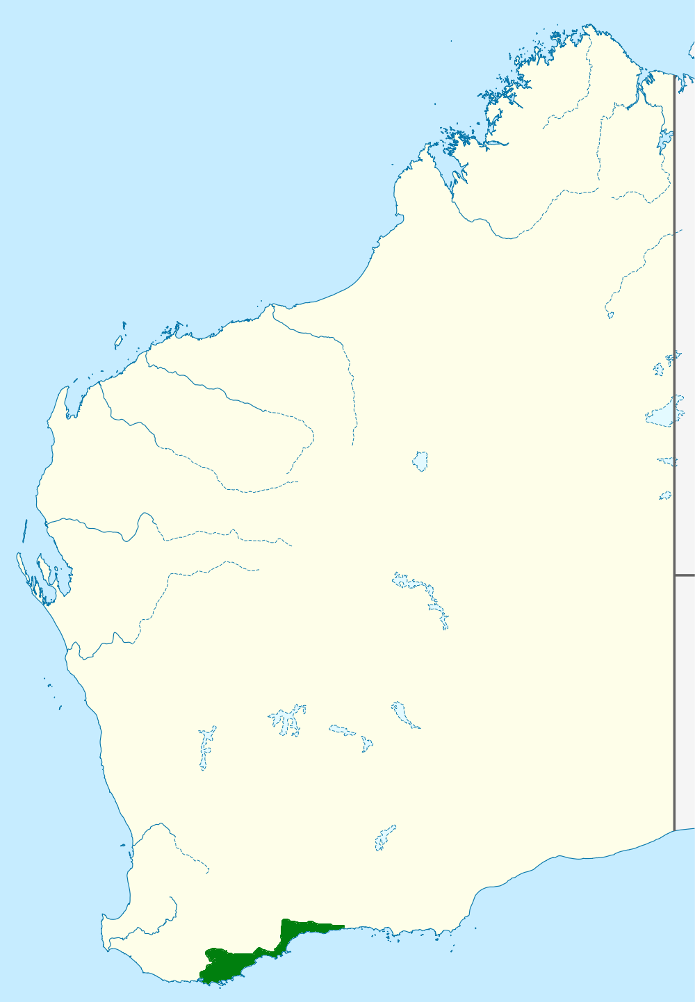 Range map of Banksia coccinea, adapted from information from Taylor, Anne; Hopper, Stephen (1988) The Banksia Atlas (Australian Flora and Fauna Series Number 8), Canberra: Australian Government Publishing Service, p. 79 ISBN: 0-644-07124-9. (incorporates official herbarium data from that page), and File:Australia_Western_Australia_location_map.svg